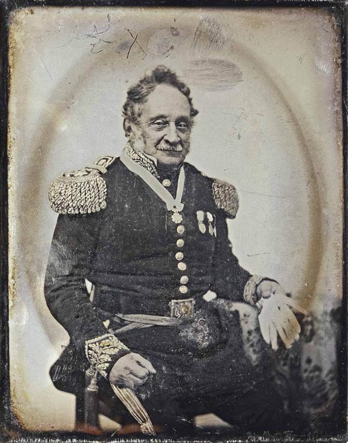 Daguerreotype of Argentine militar José M. Zapiola.